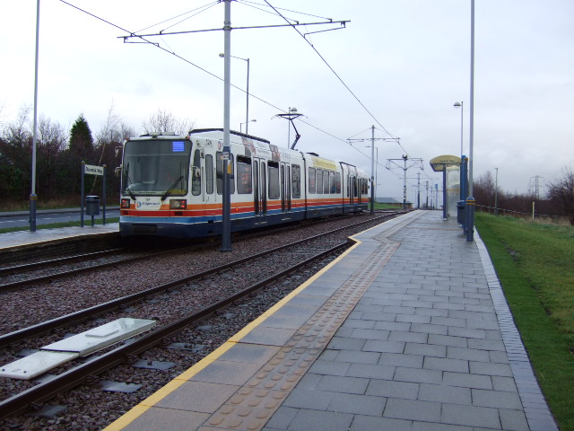 Donets'k Way Tram Stop. The tram on its way to Halfway.